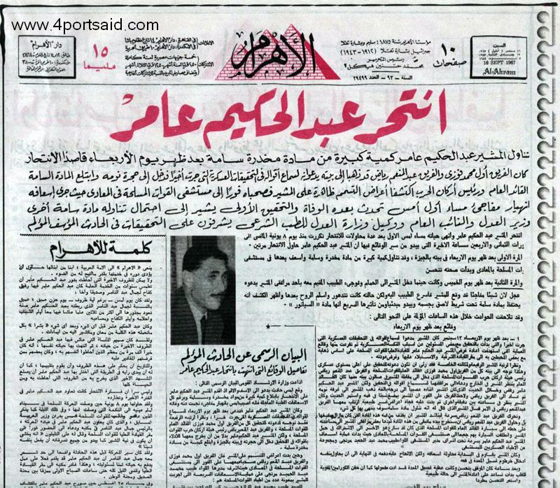 Al-Ahram 14-9-1967